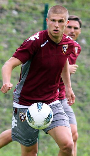 Torino player Stevanovic